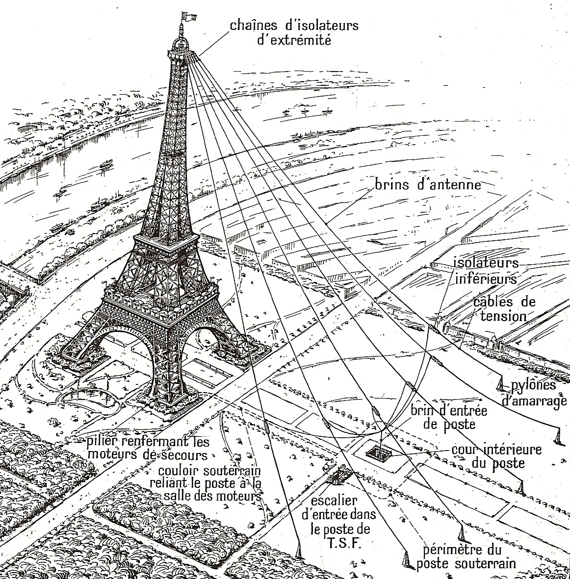 Eiffel Tower antenna, 1914